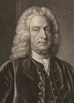 Portrait of Arthur Dobbs (1689-1765)